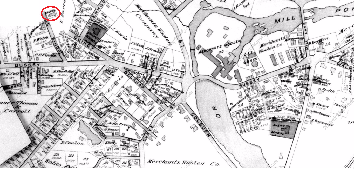 A map of East Dedham, Massachusetts, showing St. Raphael's Church in a red circle at top left. Full Title: Plate 012 Left - East Dedham Full Atlas Title: Norfolk County 1888 State: Massachusetts Location 1: Unattributed Location 2: Unattributed Publish Date: 1888 Publisher: E. Robinson Number Maps in the Atlas: 93 Map Original Width: 7.7" Map Original Height: 10.47" Item Number: US167705 Collection: Historic Map Works Rare Historic Maps Collection